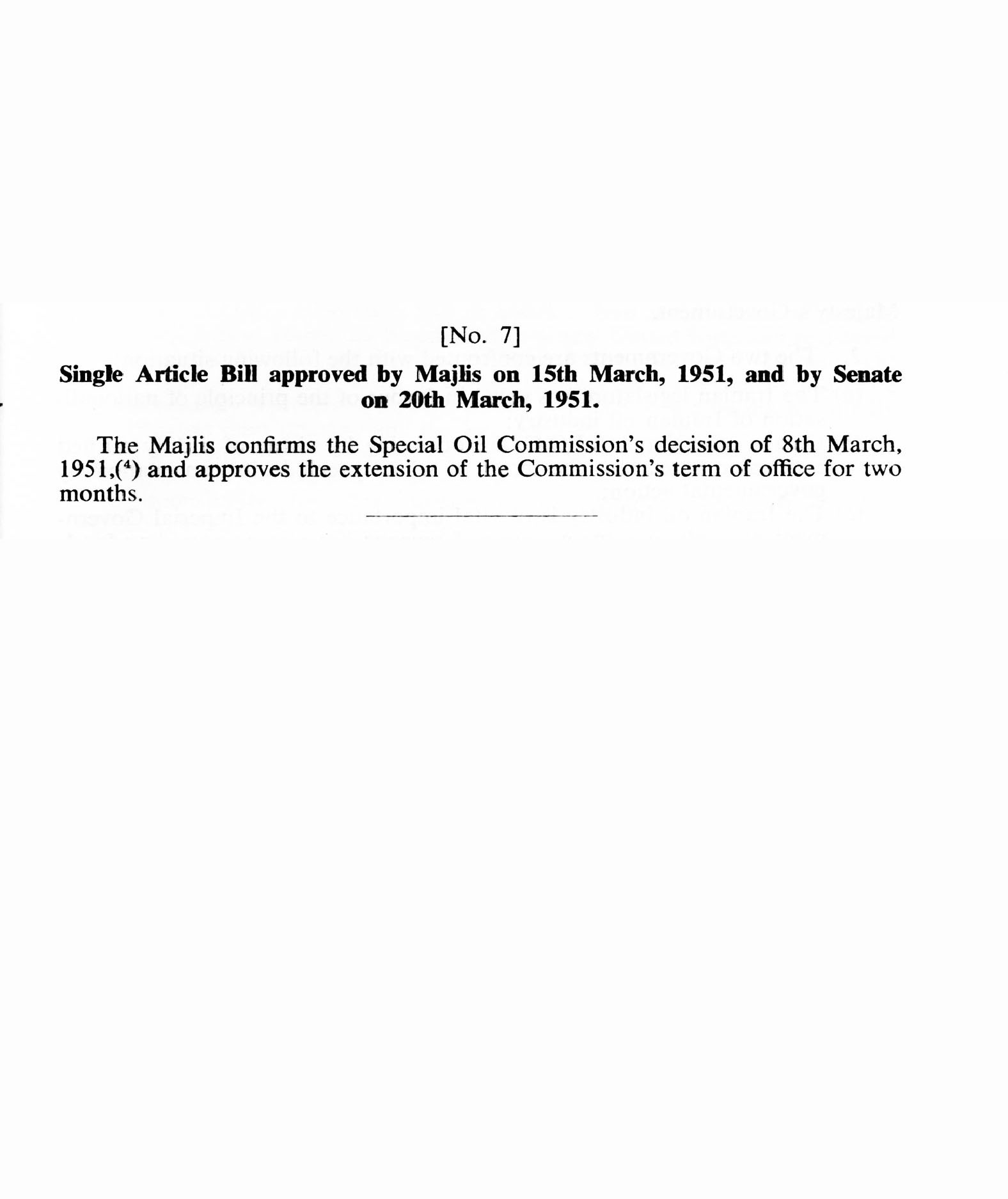 Single Article Bill aproved by Majlis on 15th March, 1951, and by Senate on 20th March, 1951